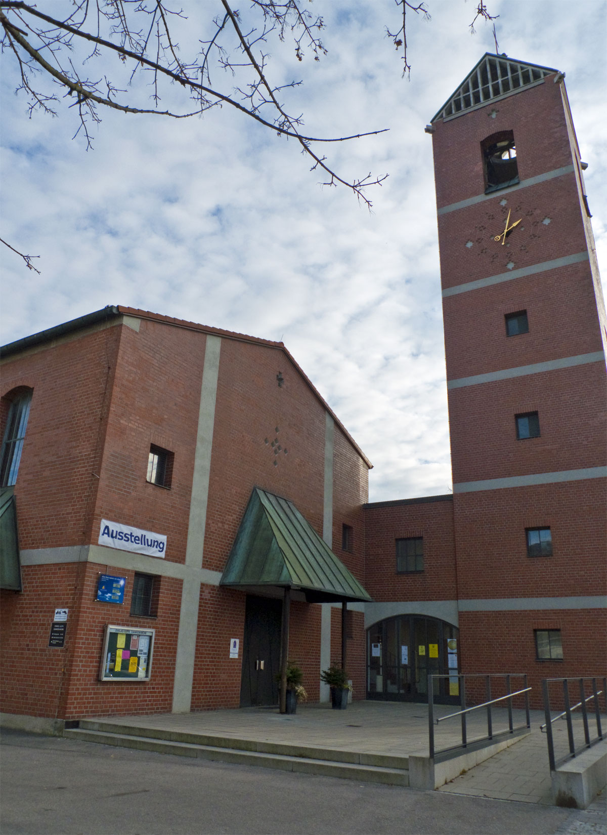 Dankeskirche, München